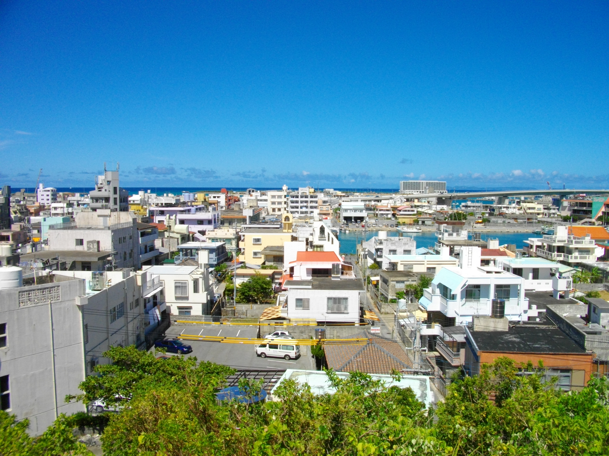 Central Itoman view from Santīmō